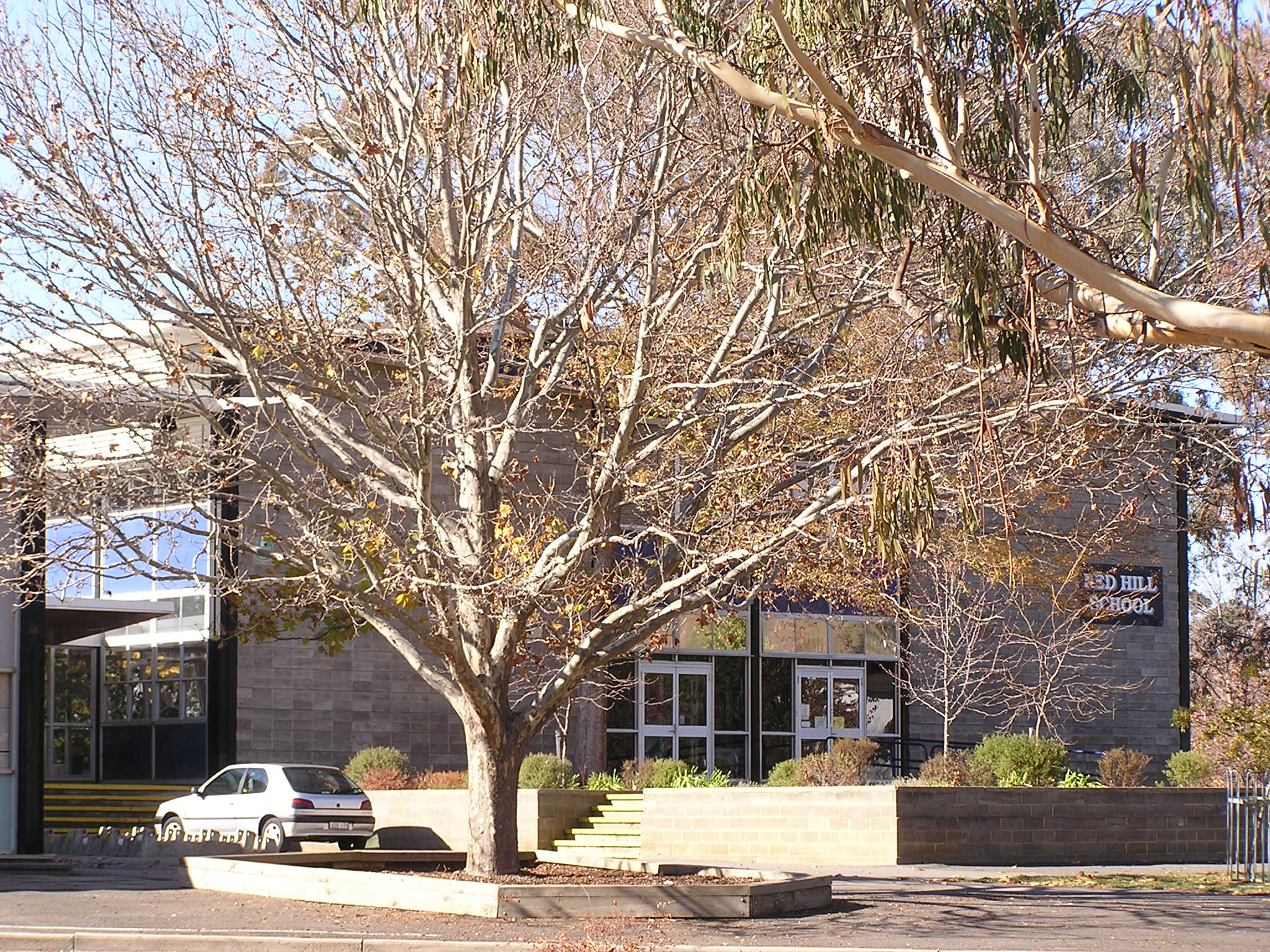 Primary school (public / government run) at Red Hill, Australian Capital Territory, Australia in June 2004.